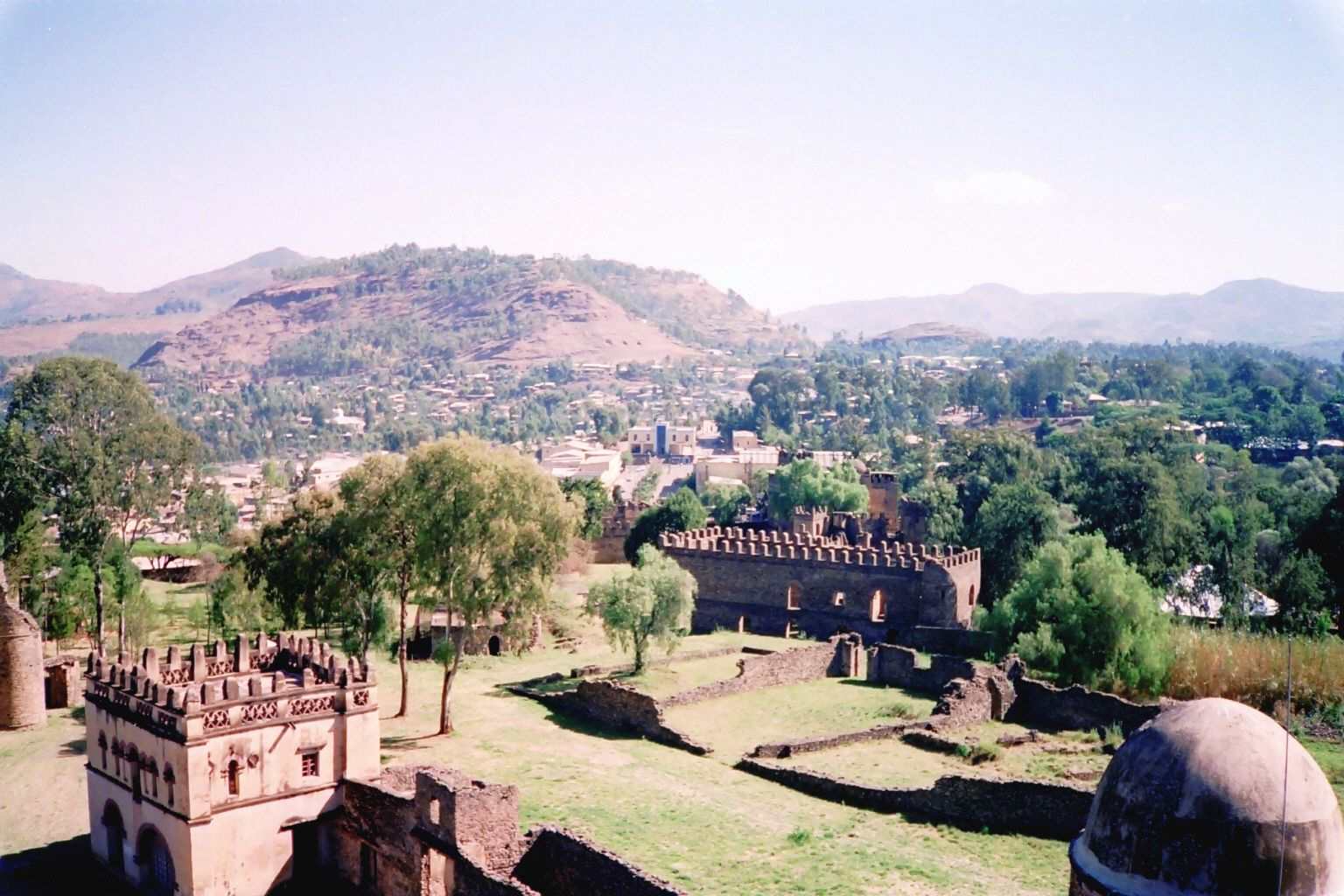 A picture of the medieval Gondar city in Ethiopia